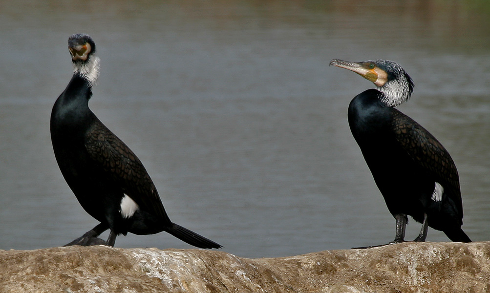 Great Cormorant, Great Black Cormorant, Black Cormorant or Black Shag Phalacrocorax carbo near Hodal, Faridabad, Haryana, India.